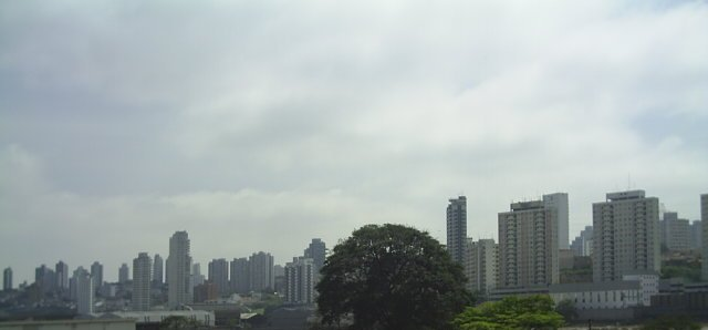 Vila Prudente in São Paulo City.